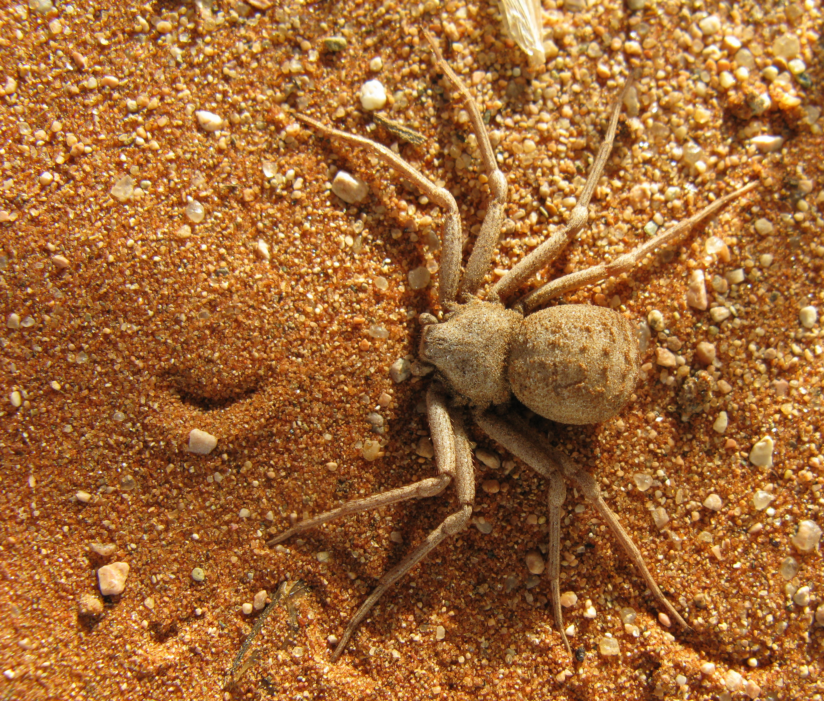 Captured in coastal Namibia. Mature female. Dorsal aspect. Note tufts of sand-retaining hairs, and the three anterior prominences, each bearing two closely-spaced eyes.